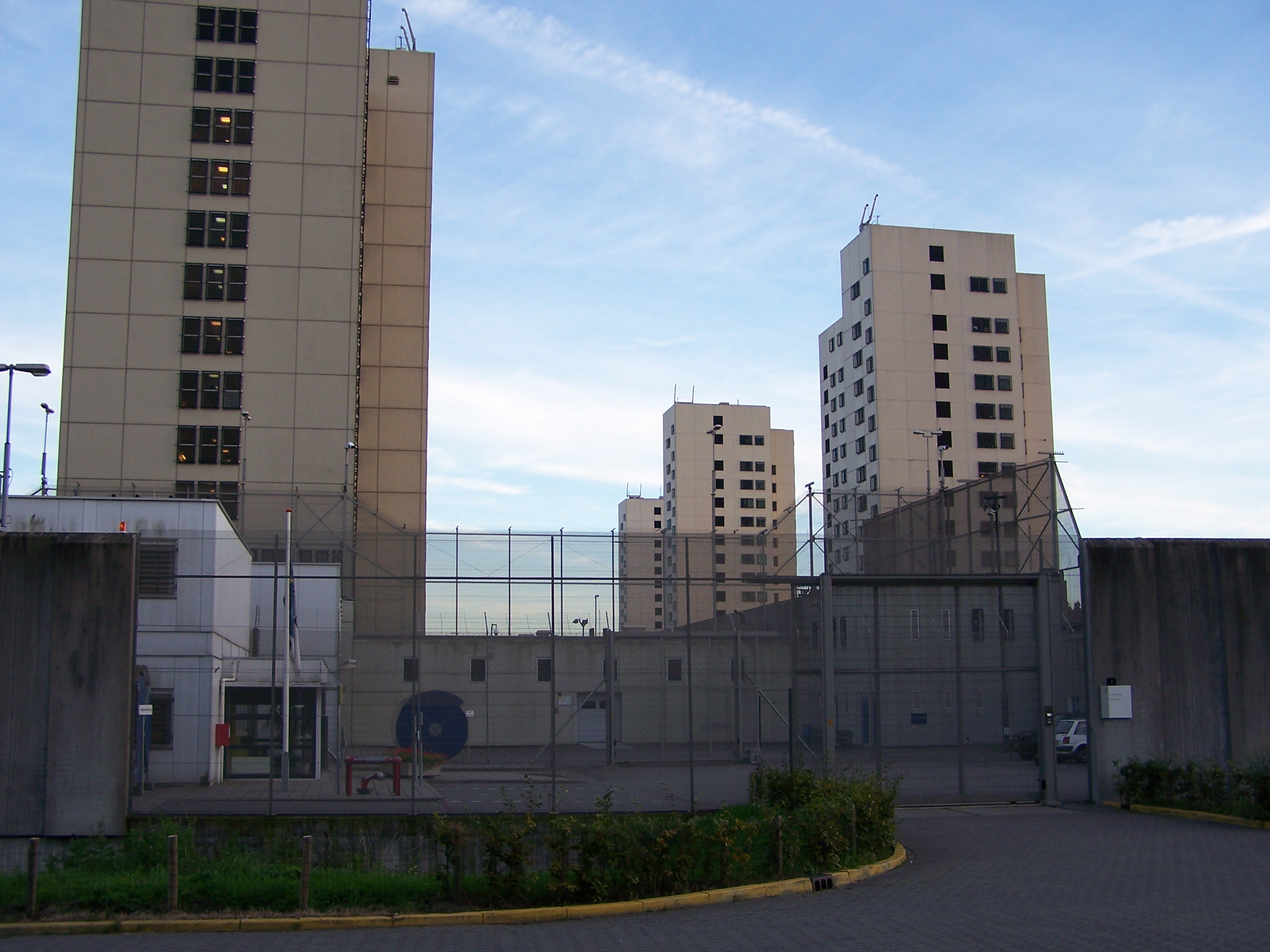 This picture depicts the Bijlmerbajes in Amsterdam, The Netherlands. Author:Mig de Jong